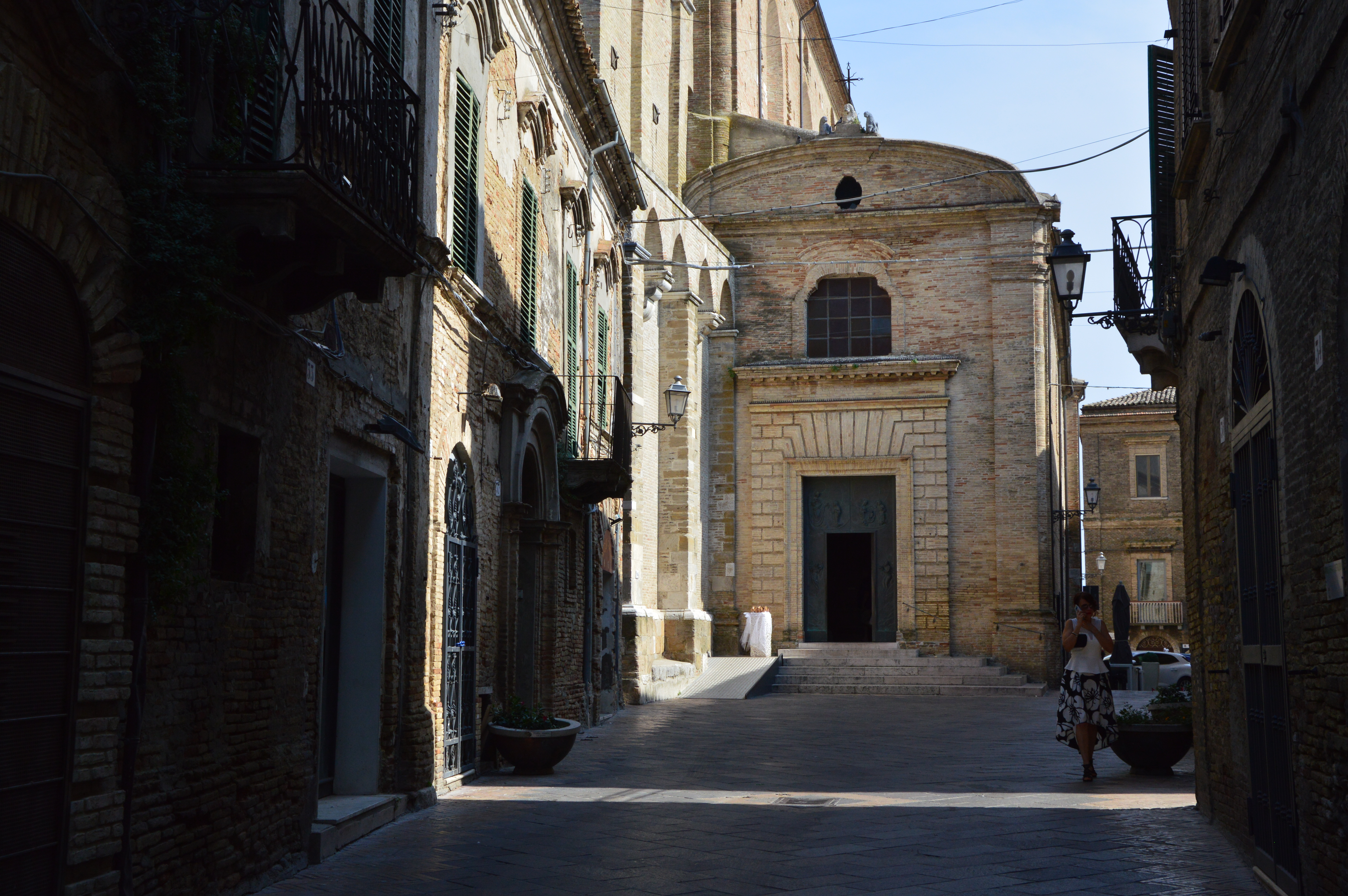 Facciata